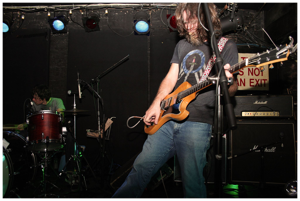 at mercury lounge, NYC | 10.10.07